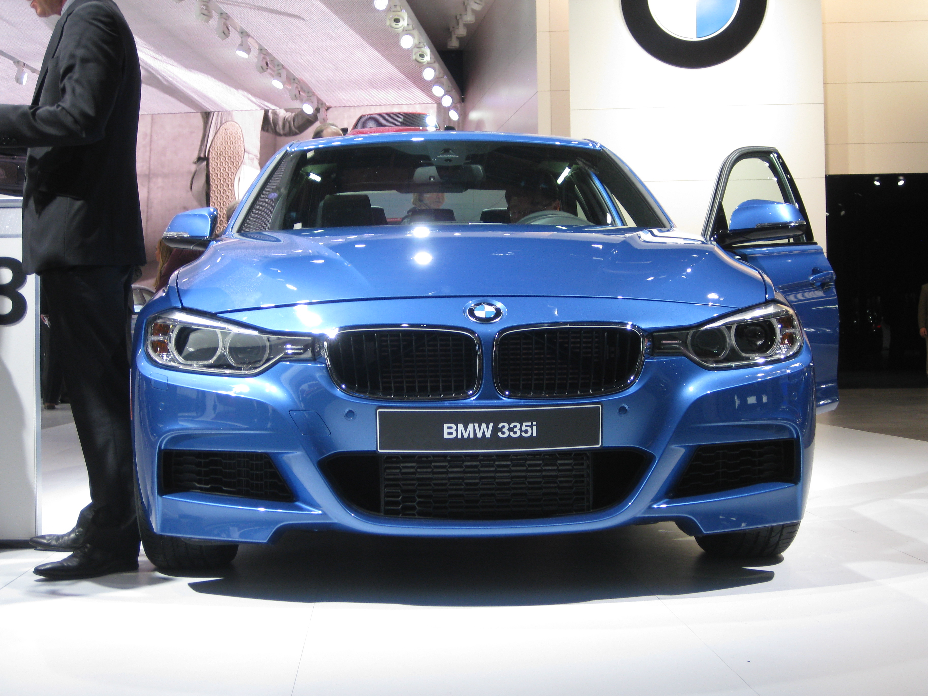 For more info and images please check